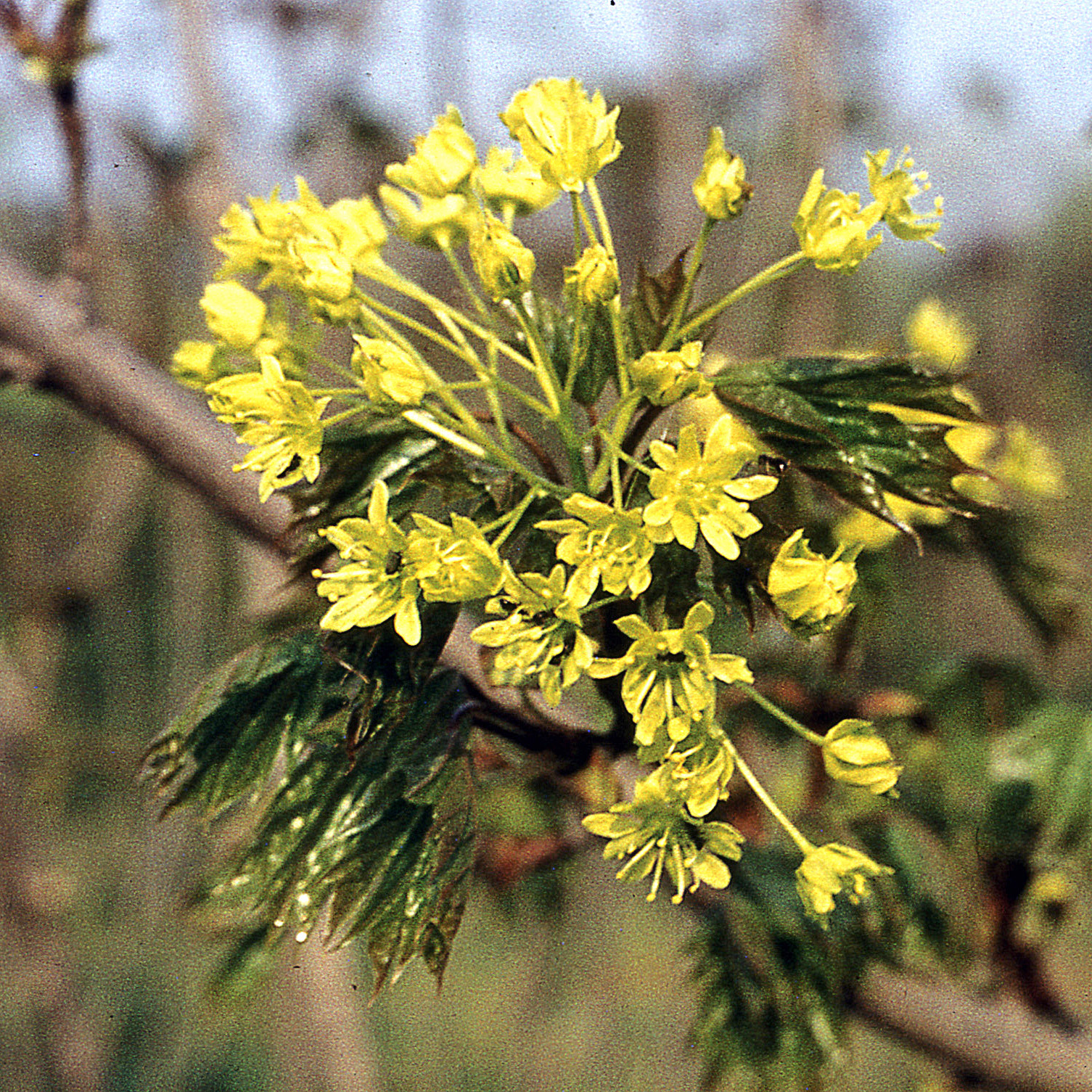 Acer platanoides inflorescence